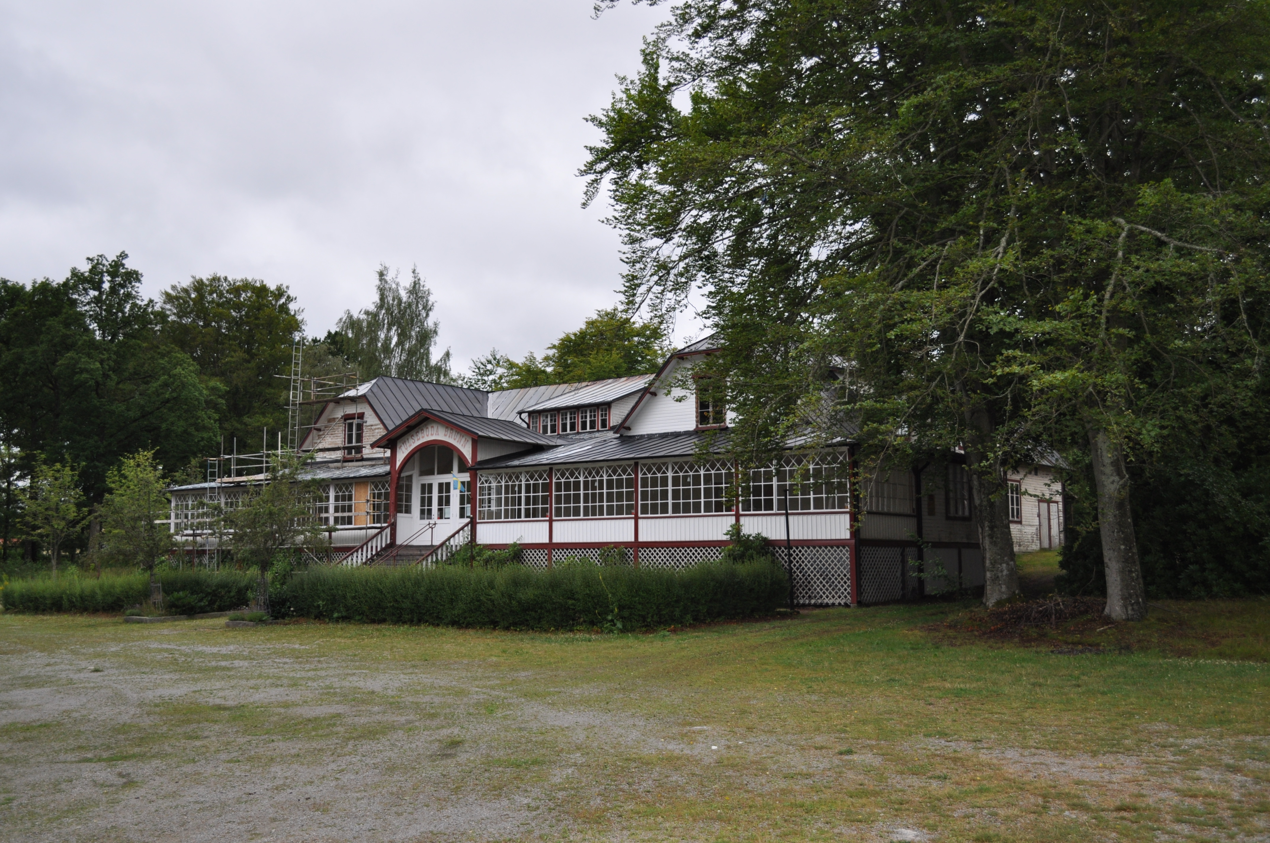 Tulseboda brunn in kyrkhult